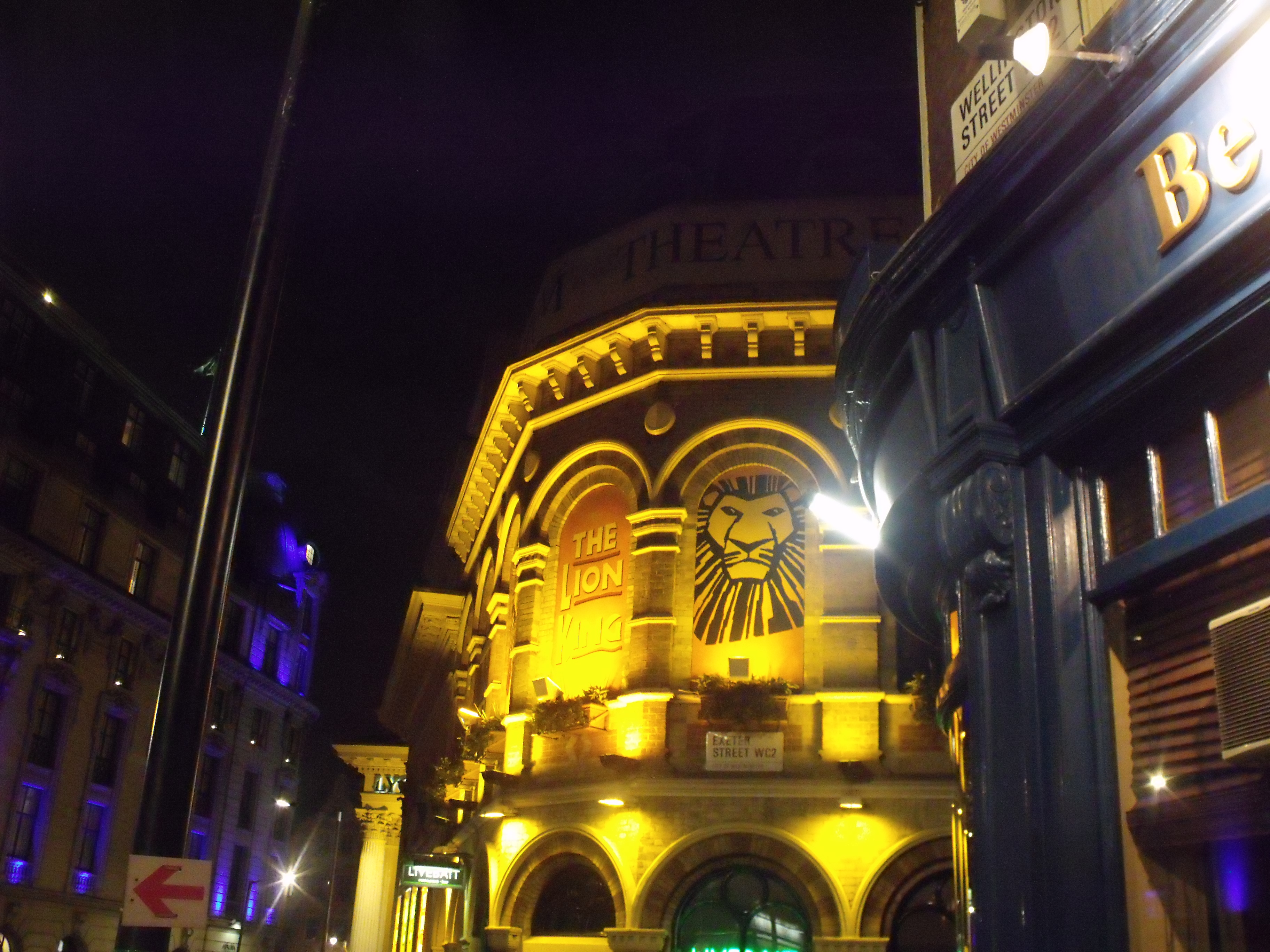 Continuing on the way to the Strand up Wellington Street, past the theatre showing The Lion King at the Lyceum. This is the Lyceum Theatre - Wellington Street in London, home of Disney's The Lion King (the stage show not the movie). The theatre is Grade II* listed. Lyceum Theatre, Westminster In the entry for:- TQ 3080 NE WELLINGTON STREET, WC2 73/30 Lyceum Theatre (formerly listed as Nos 17 to 21 (odd) Lyceum Theatre). 20.8.60 The grade shall be upgraded to Grade II* (Star). TQ 3080 NE CITY OF WESTMINSTER WELLINGTON STREET, WC2 73/30 Lyceum Theatre (formerly 20.8.60 listed as Nos 17 to 21. (odd) Lyceum Theatre) G.V. II Theatre now dance hall. 1831-34 by Samuel Beazley, interior rebuilt with auditorium of 1904 by Bertie Crewe. Painted stone front with painted brick side and rear. Graeco-Roman porticoed main front by Beazley, the principal theatre architect of his day. 2 storeys and attic. 3 major bays wide with portico extended to right with a wing whose frontage is angled to street line. Giant hexastyle Corinthian columned portico with coupled outer columns extending over pavement with pediment. Tall attic above the dentilled and modillioned main entablature; triple arched group of doorways. The wing is of 2 storeys only with arcaded treatment and bracketed cornice. Interior despite adaptation and alteration for present ballroom use retains substantial part of Crewe's 1904 work: grand entrance foyer and staircase lead to spectacular auditorium, now with flat floor, but with most of its original lavish Rococo style ornament intact; 3 balconies; immense cartouche above proscenium arch which is flanked by 2 tiers of paired, elaborately framed, boxes, the upper tier with Corinthian columns and fantastical arches; square deeply coved ceiling with original paintings etc. One of the oldest theatres in London and a major Crewe auditorium. The Theatres of London; Mander and Mitchenson Corner with Exeter Street.